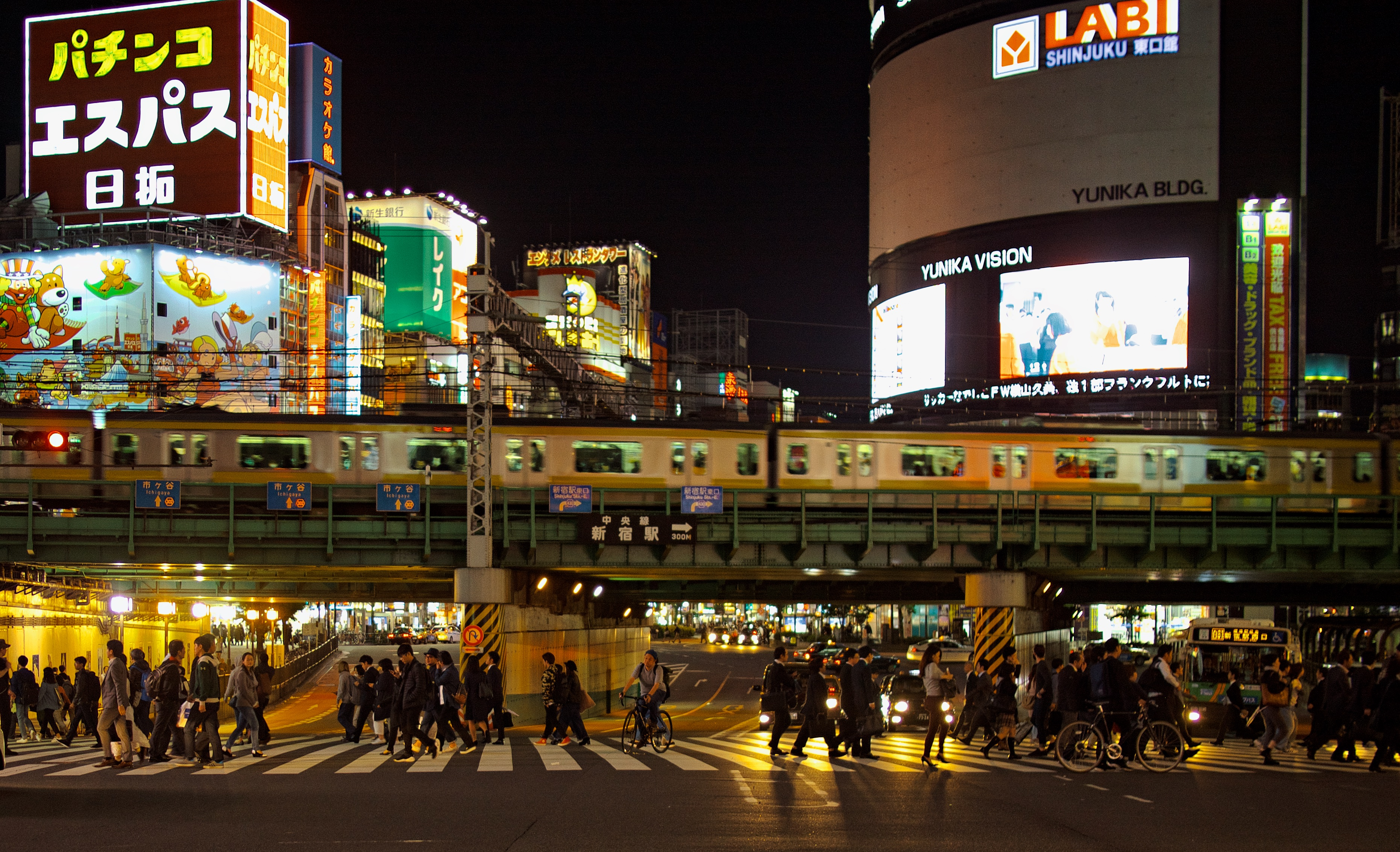 Shinjuku, Japan